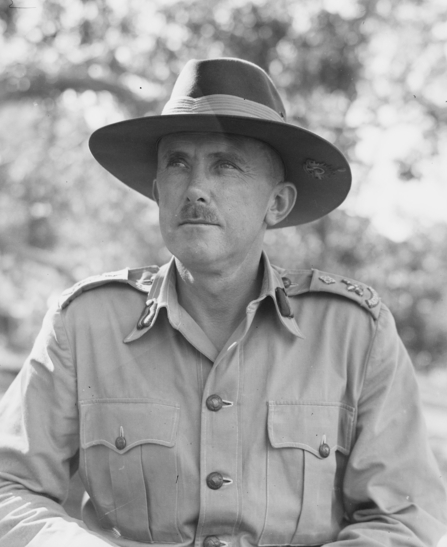 AWM caption : PORT MORESBY, PAPUA, 1944-03-13. VX20308 MAJOR-GENERAL F.H. BERRYMAN, CBE, DSO, GENERAL OFFICER COMMANDING 2ND AUSTRALIAN CORPS.